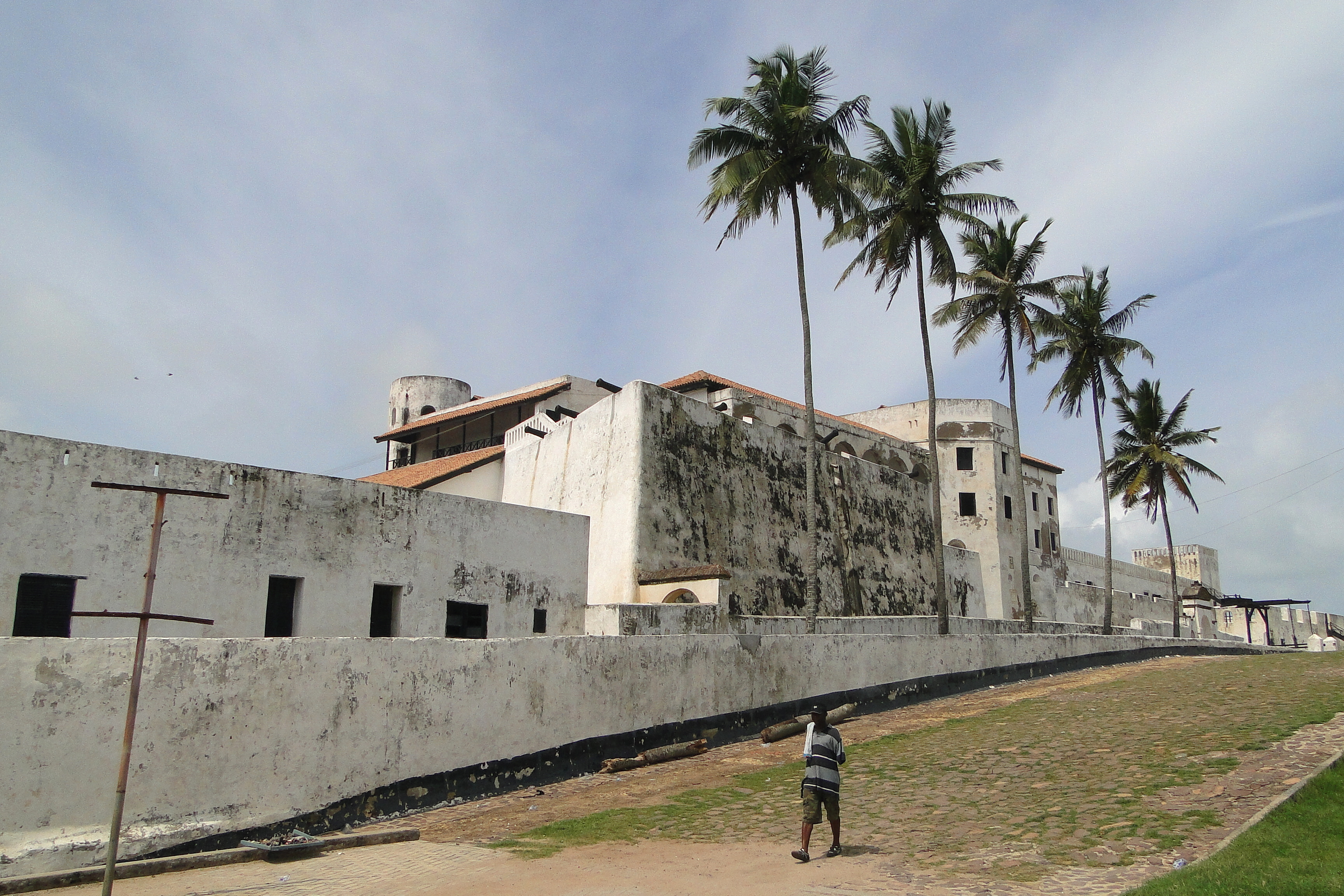 St. Georges Castle Elmina Cape Coast